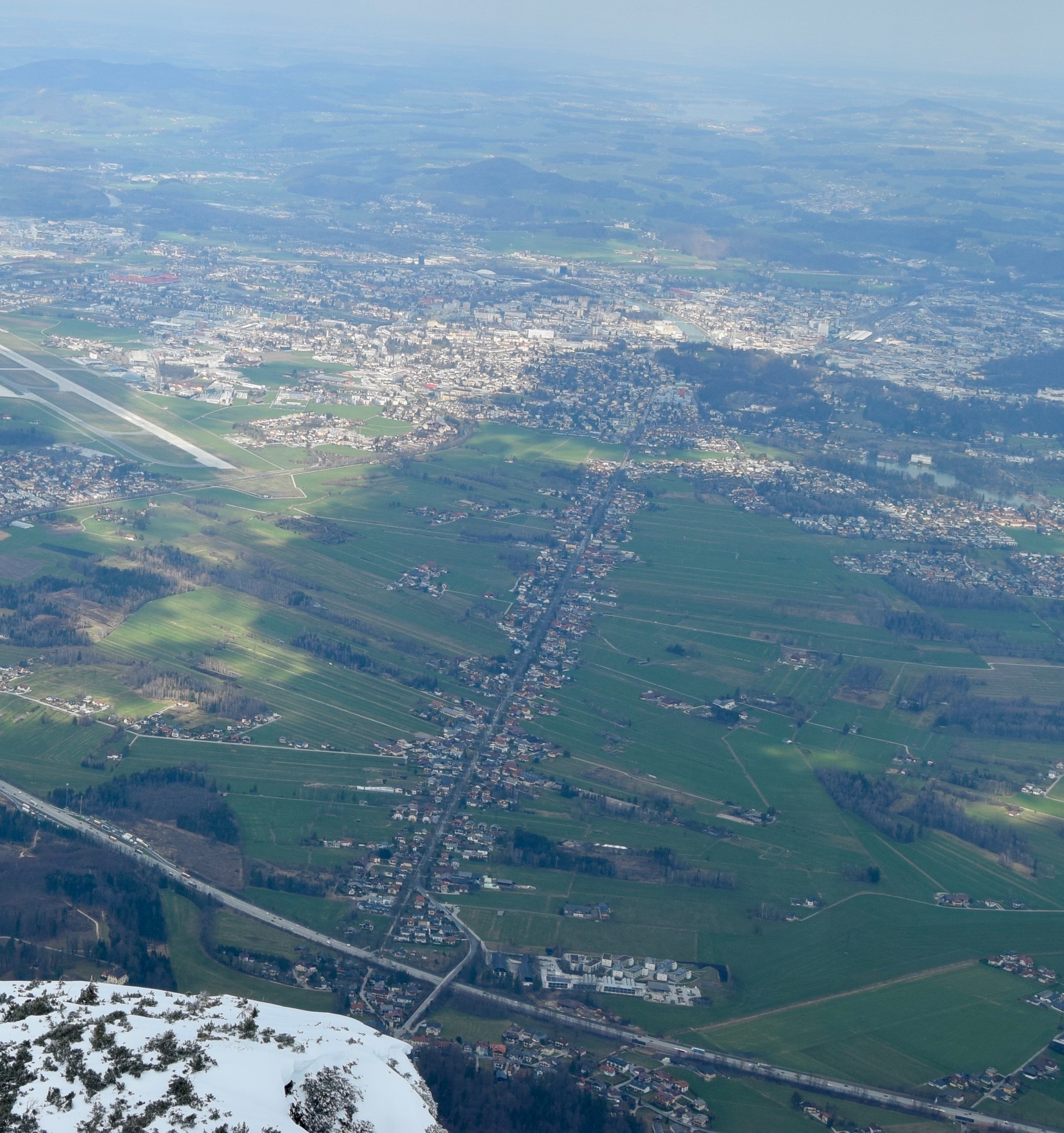 Moosstraße from Neutorstraße (Salzburg) to Glaneggstraße (Glanegg)